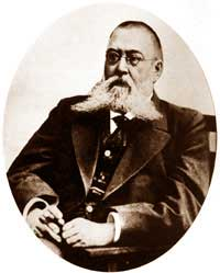 Photograph of Aleksei Semyonovich Vishnyakov, founder of the Moscow Institute of Commerce, now known as the Plekhanov University.